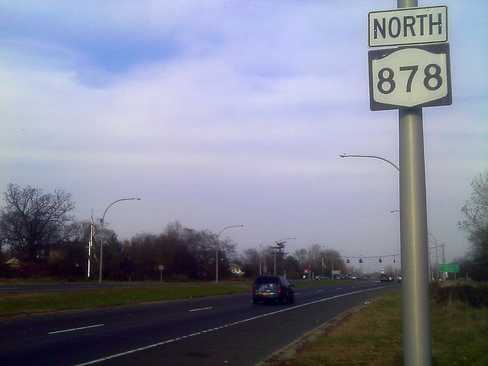 NY 878 heading northbound on the Atlantic Beach Bridge Approach in Nassau County, New York.